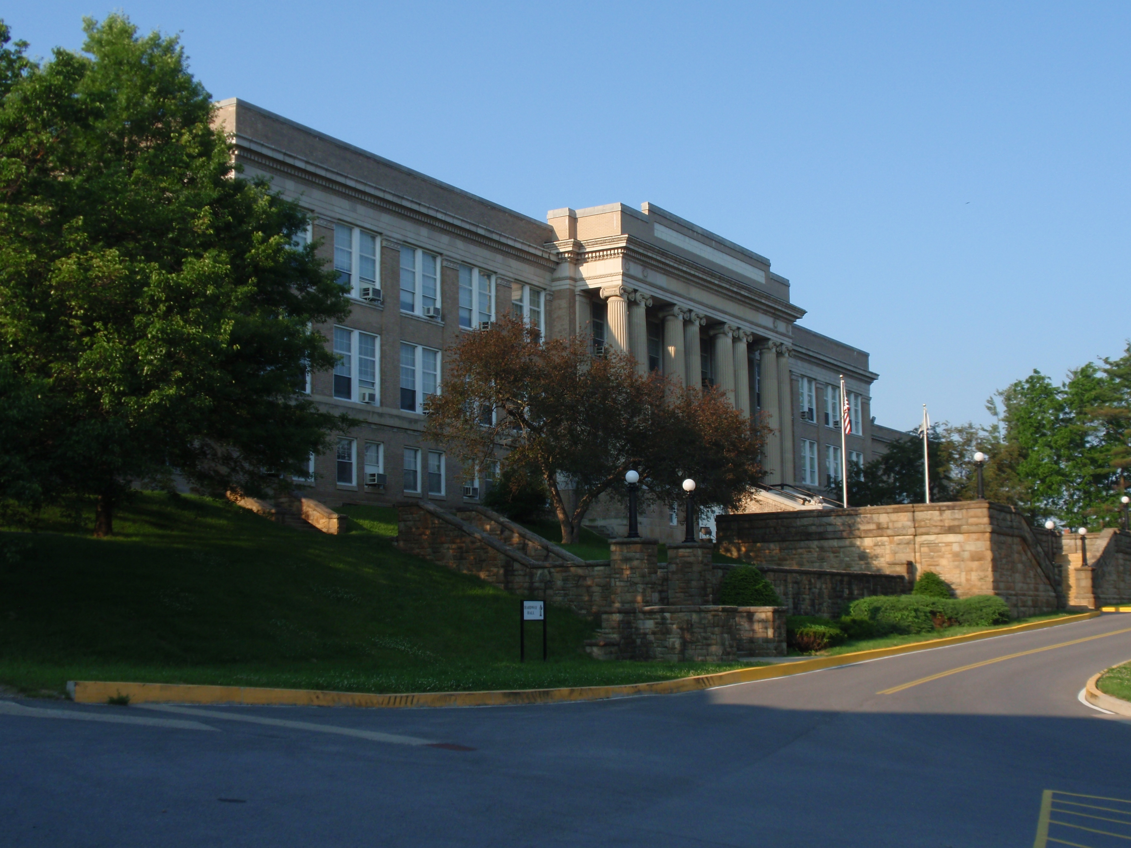 Fairmont State University - Fairmont, WV - Hardway Hall. It was originally known as the Fairmont Normal School Administration Building